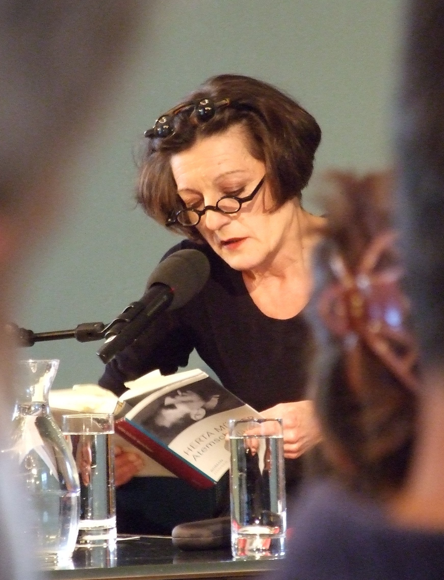 Herta Mueller, German writer, at shortlist presentation ("Deutscher Buchpreis" 2009) in Frankfurt am Main, Germany